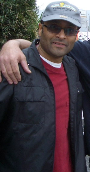 Naren Shankar, William Petersen and Carol Mendelsohn of "CSI."